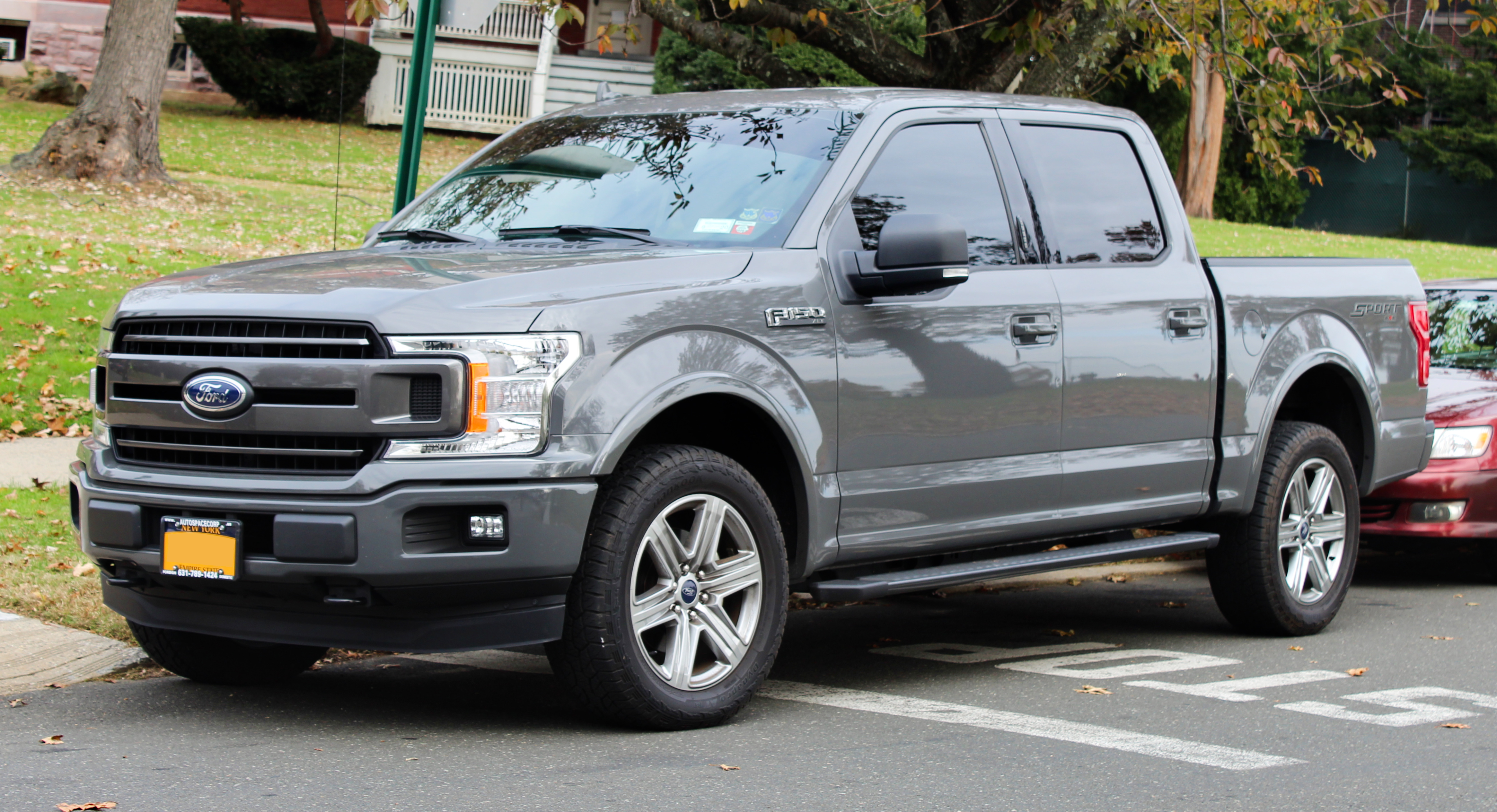 A 2018 Ford F-150 XLT photographed in Bayside, Queens, New York, USA